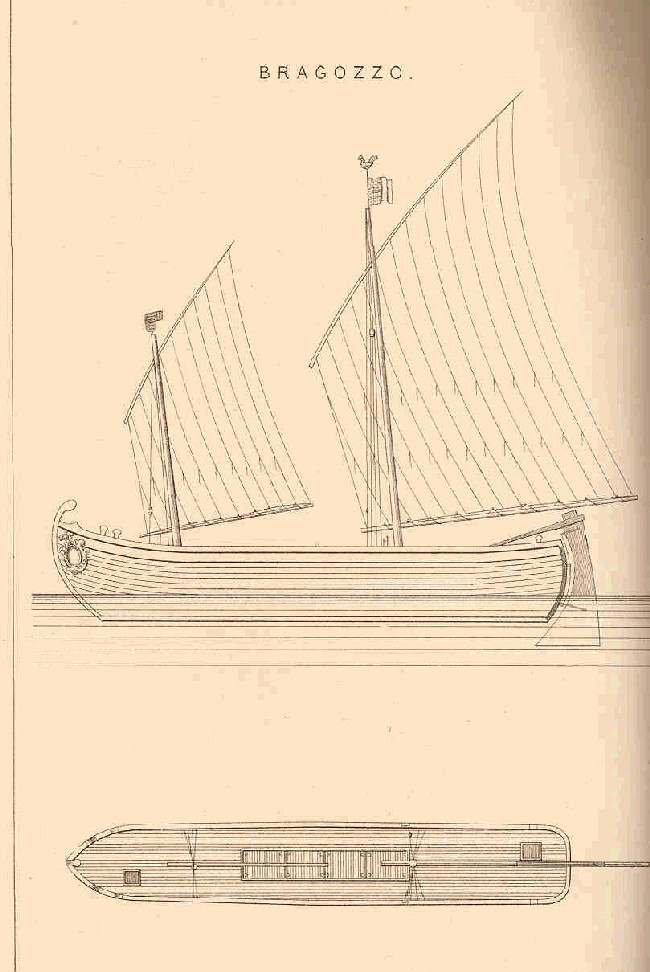 Bragozzo Subject: Bragozzi (Ship), Sailboats Tag: Vessels